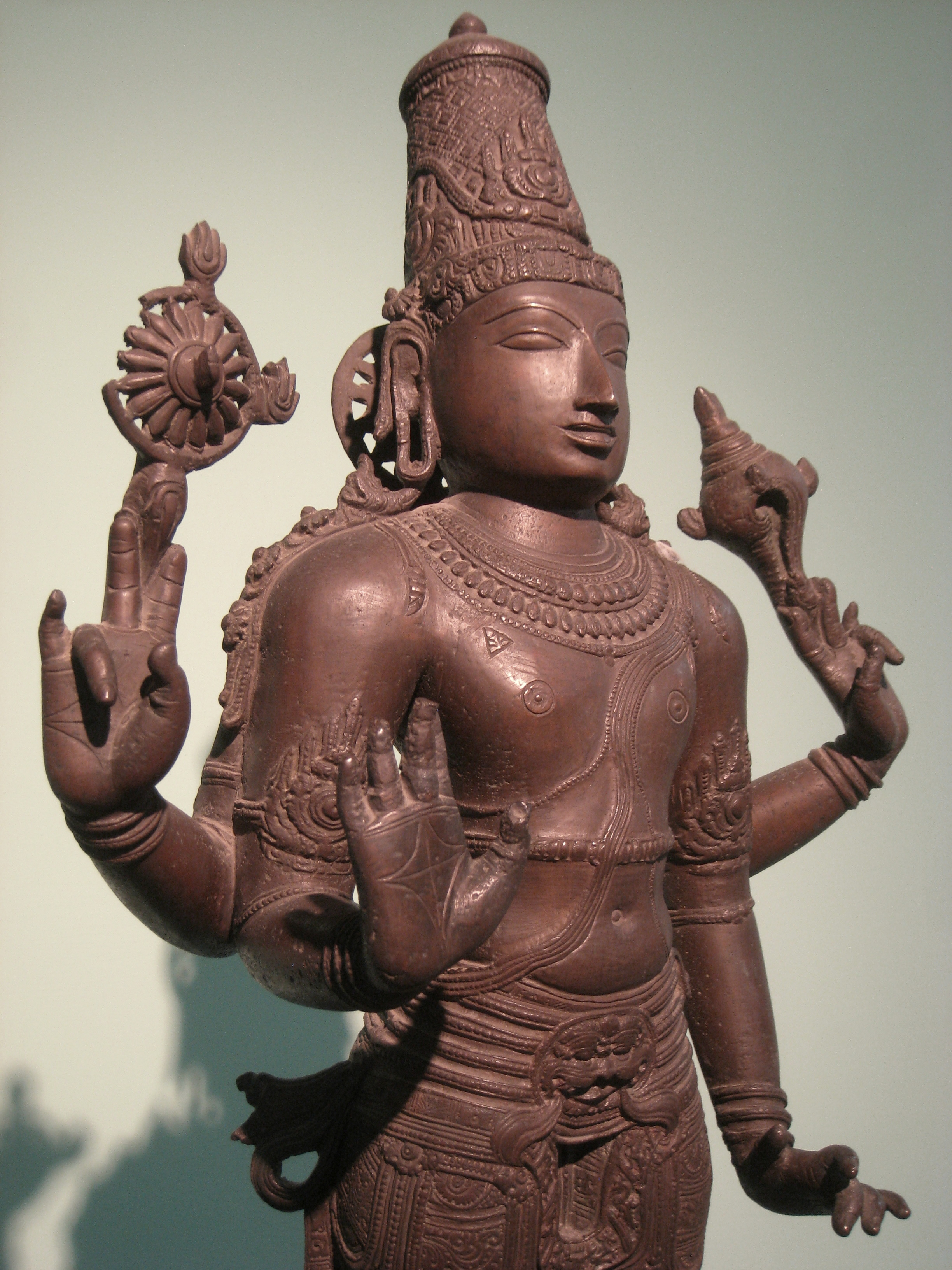 Bronze sculpture in National Museum, New Delhi, India.